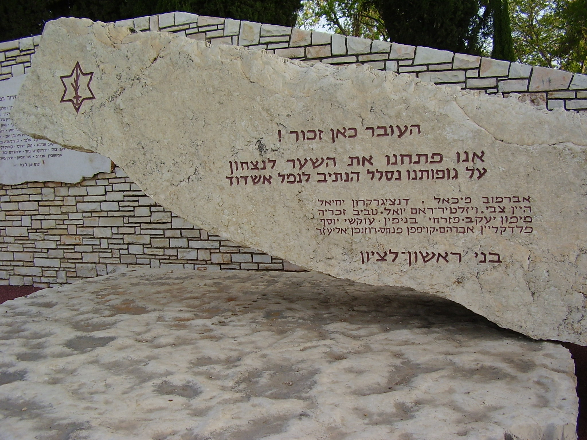 Independence war memorial in Ashdod